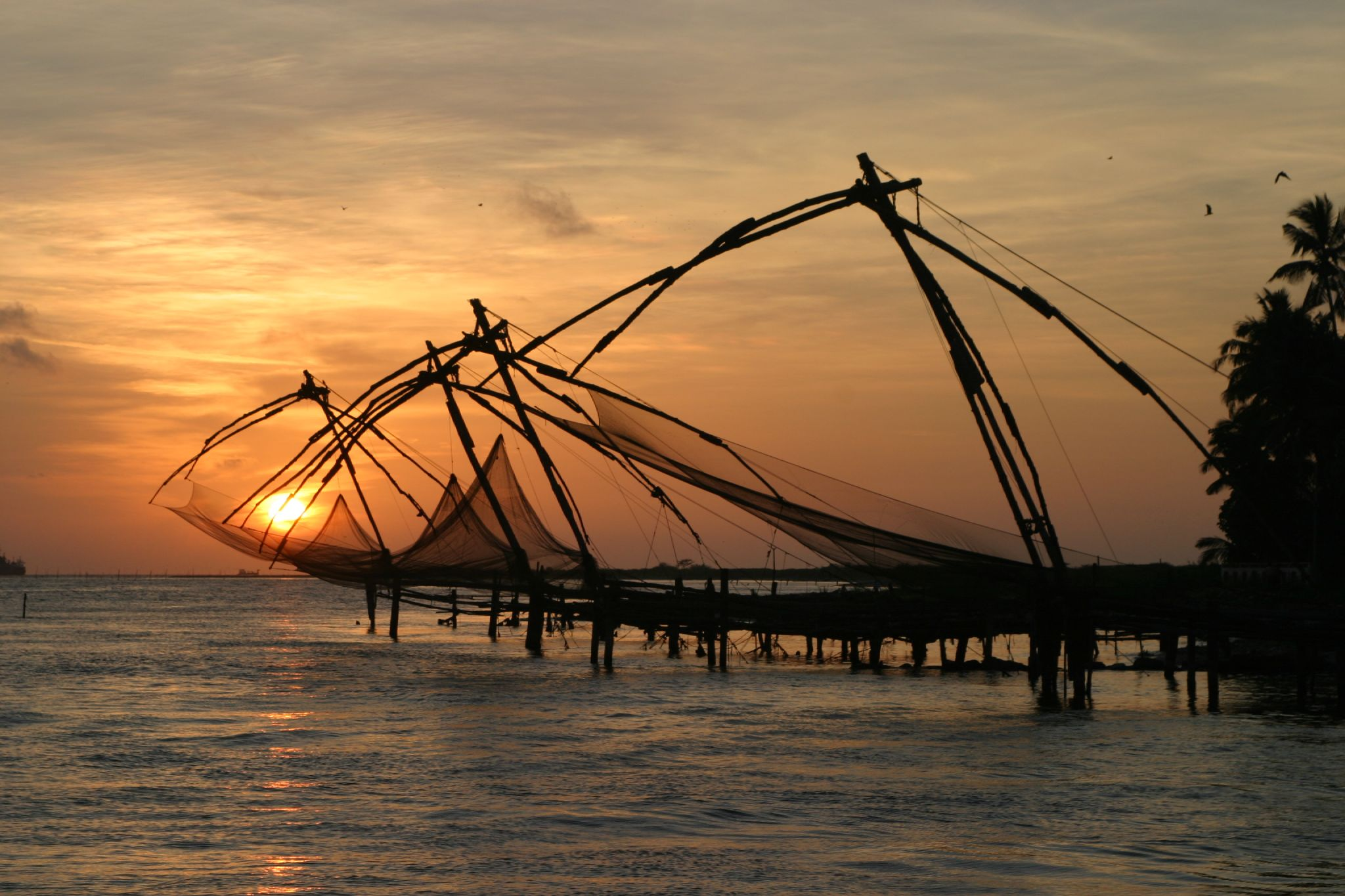 The Chinese Fishing Nets are the widely recognized symbol of Kochi